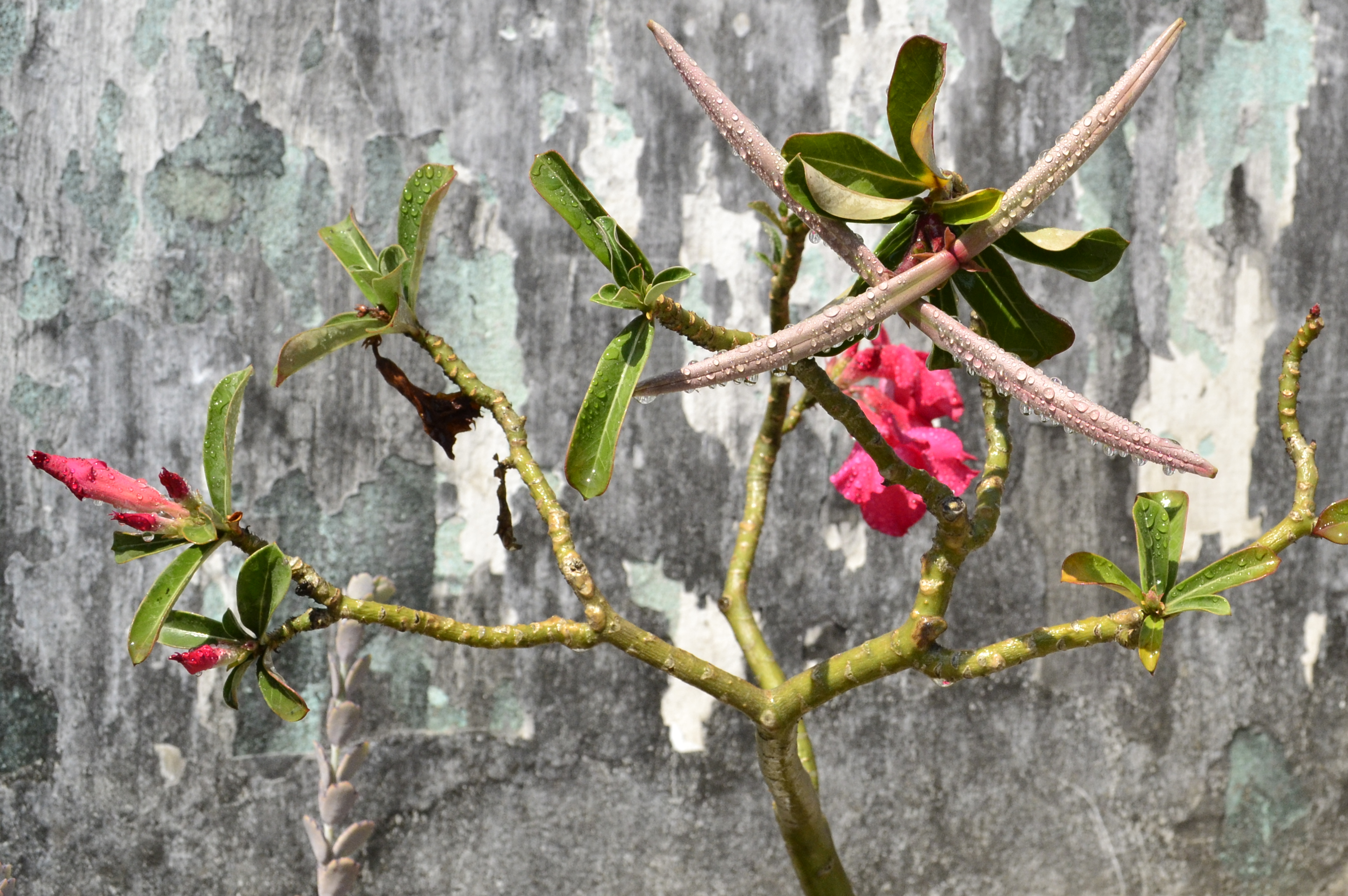 Fruits in Adenuim Obesum